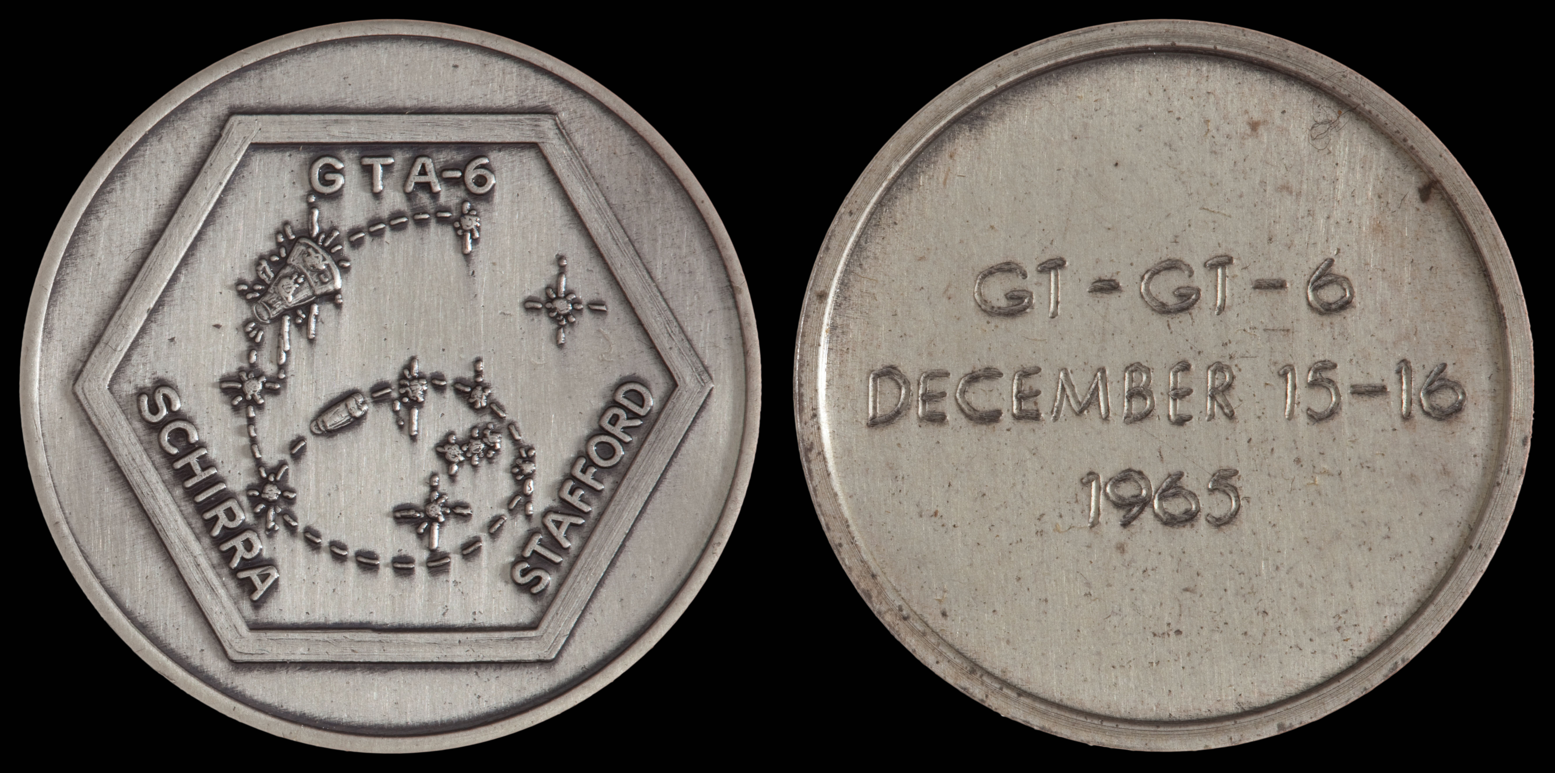 Gemini 6A Flown Silver-Colored Fliteline Medallion(6082-40045)